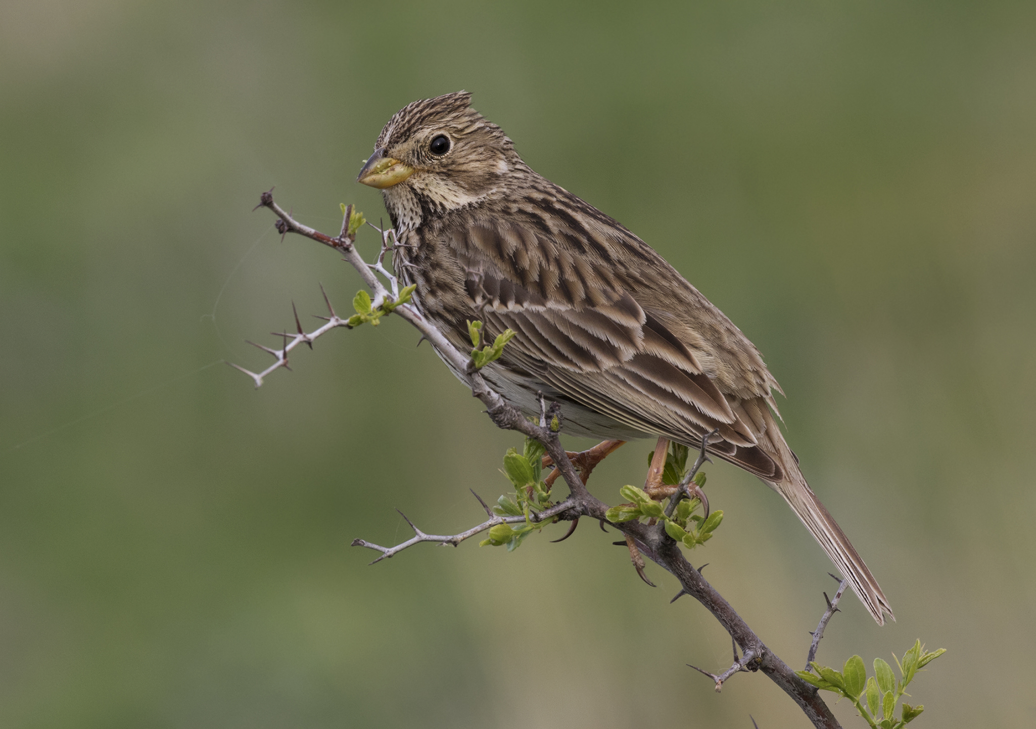 A corn bunting (Emberiza calandra) singing in a late evening time. Balcalı, Sarıçam - Adana, Turkey.